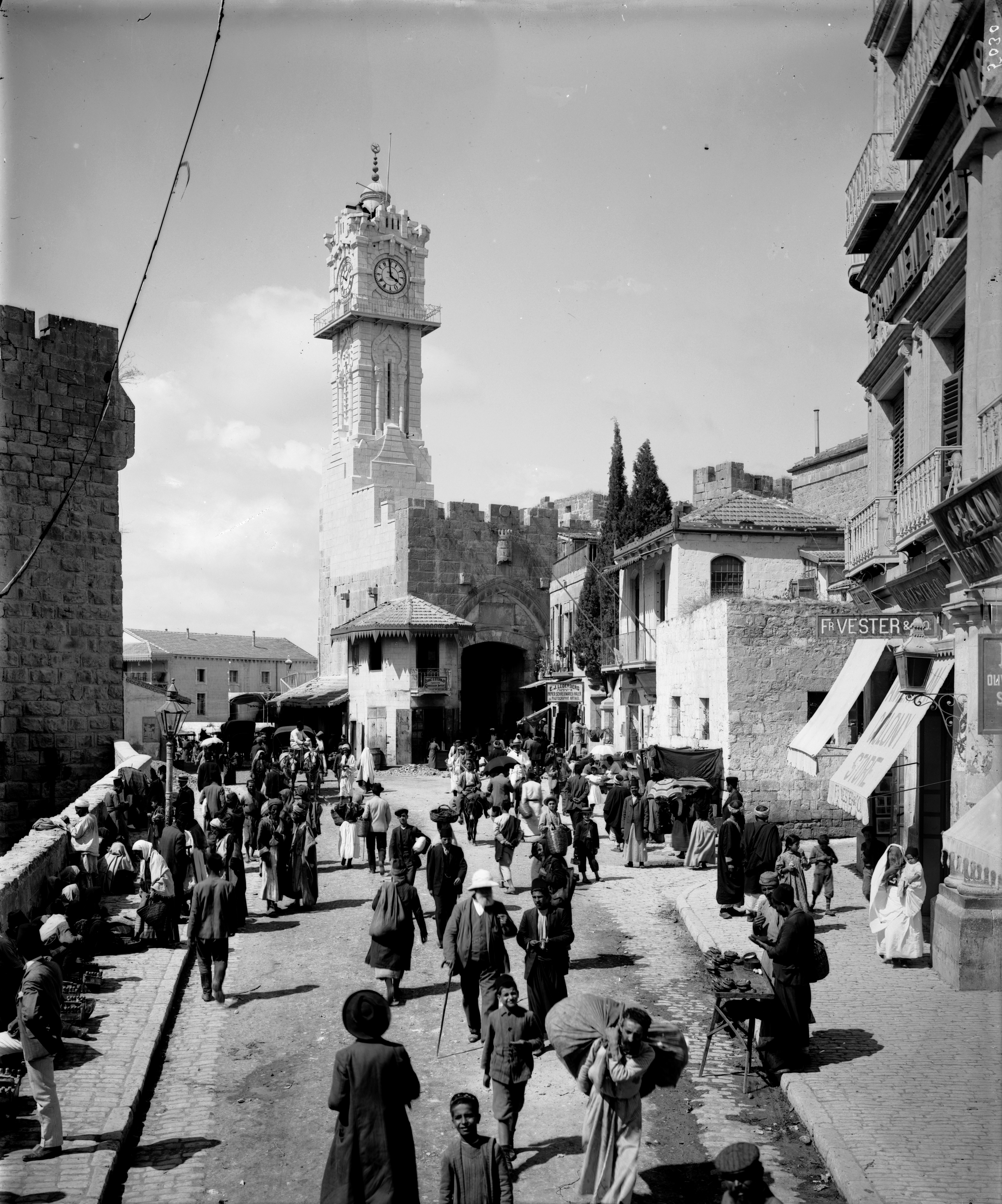 Jerusalem (El-Kouds). Street scene inside the Jaffa Gate.